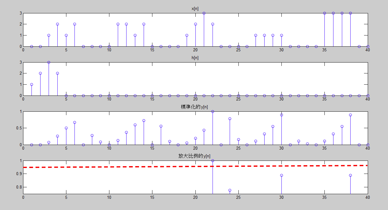 normalized match filter